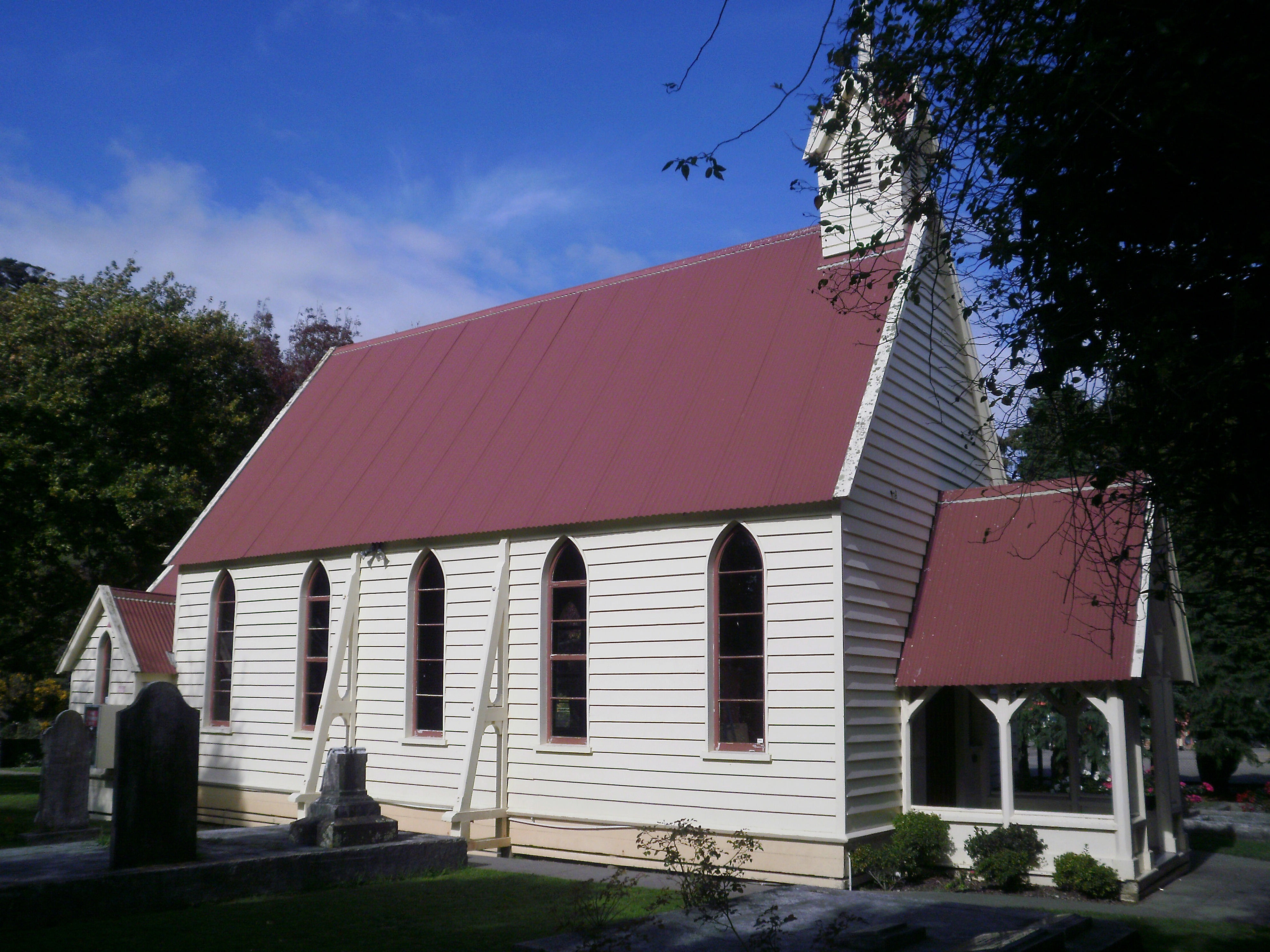 Christ Church, Taita, Lower Hutt, New Zealand. Built 1853, its the oldest survivng church in the Wellington Region.